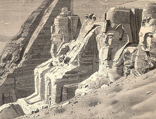 Abu Simbel in Egypt